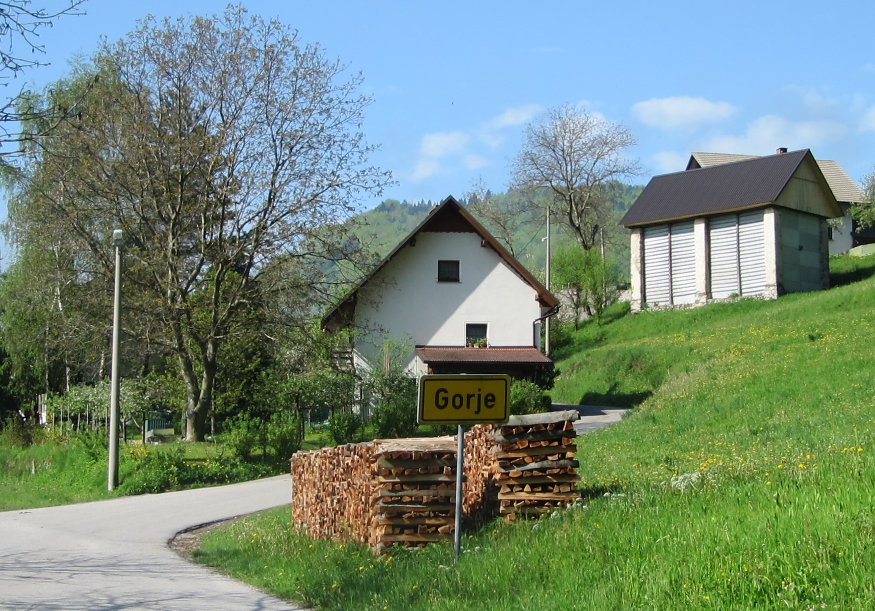 The settlement of Gorje in the Municipality of Cerkno, Slovenia